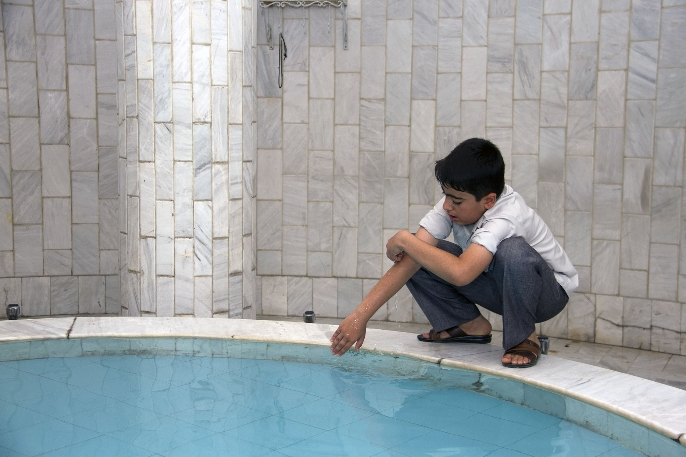 Biologically, a child (plural: children) is a human being between the stages of birth and puberty.